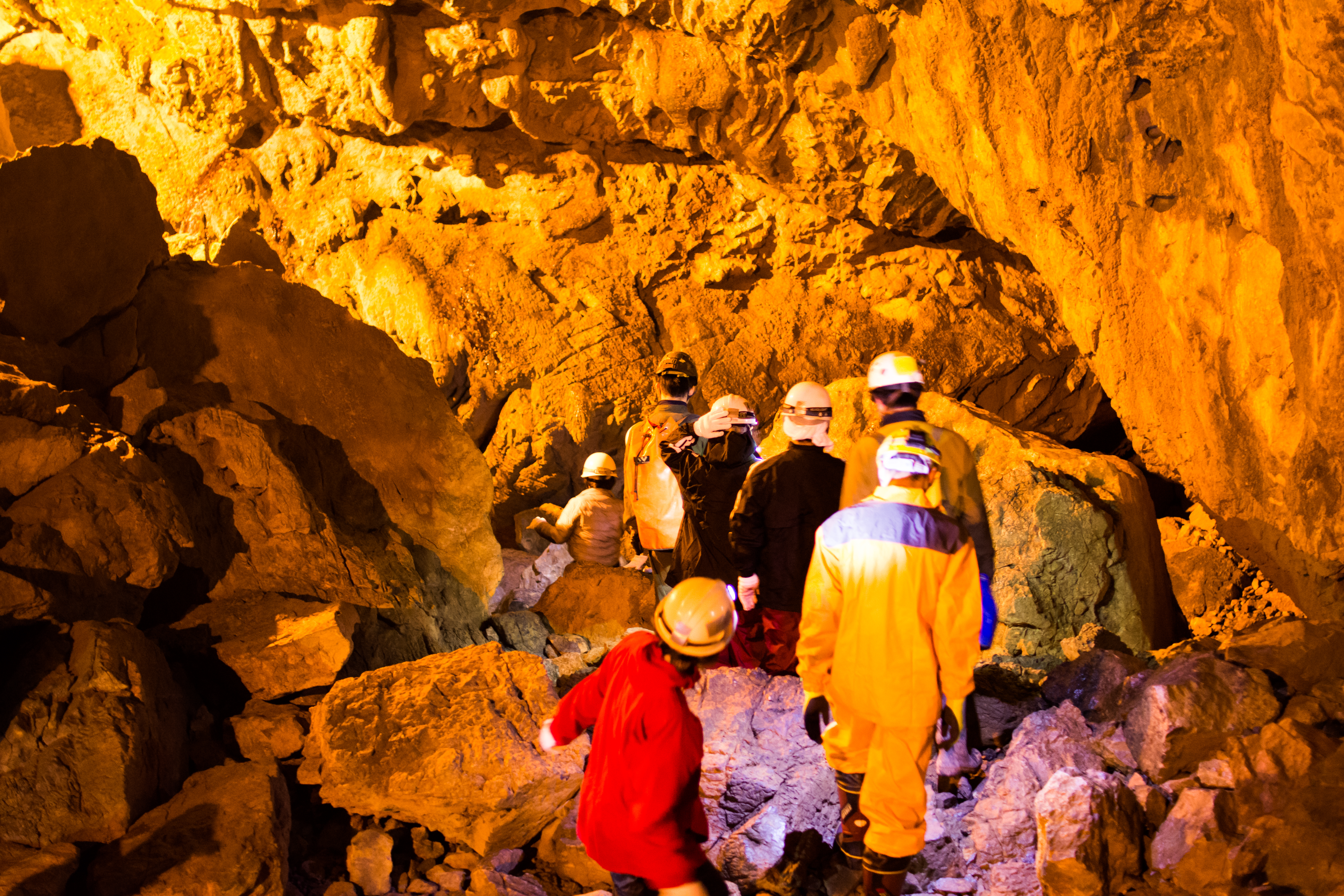 Observation event in Ohiroma, Kawachi no Kaza-ana.